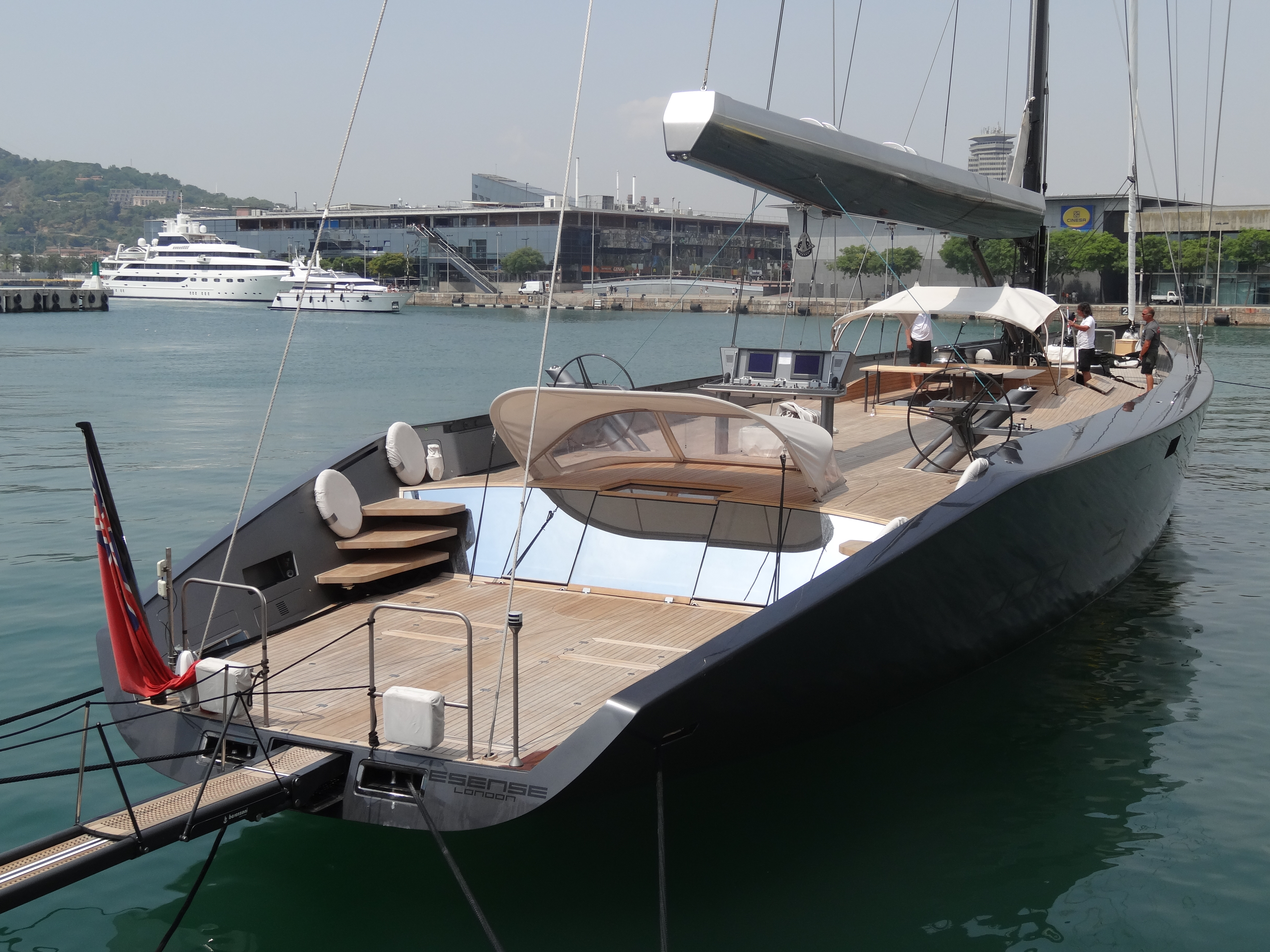 Esence (ship, 2006) at Marina Port Vell, Port of Barcelona